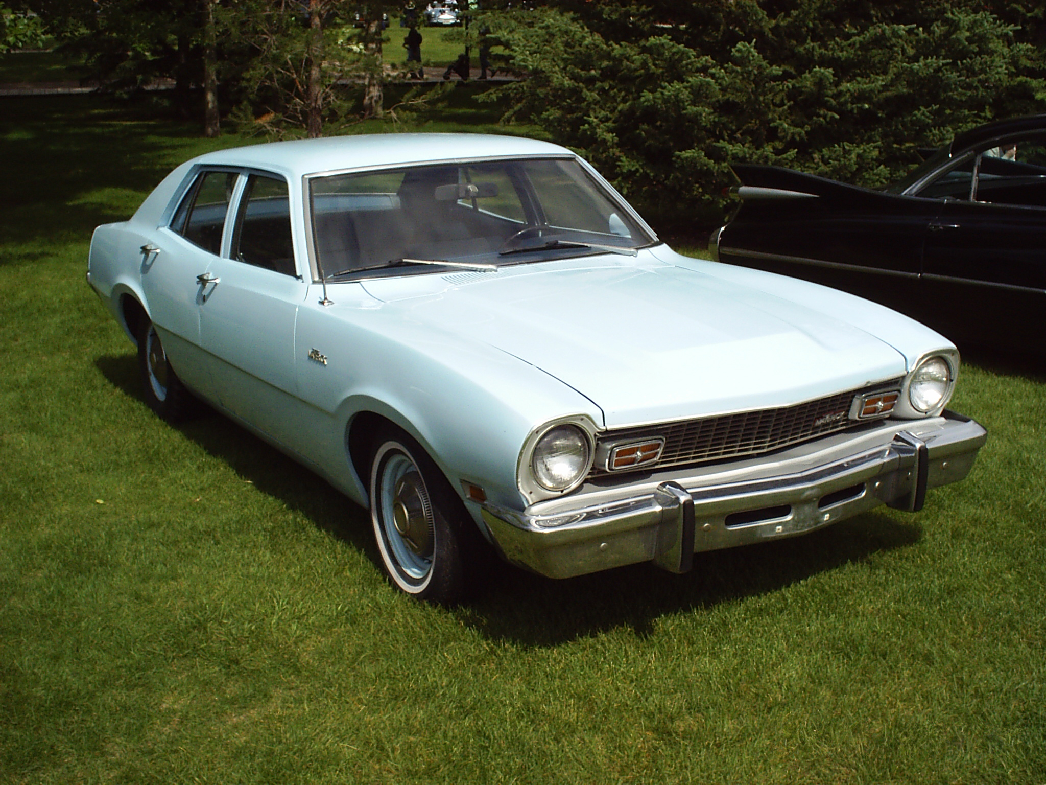 Ford Maverick that belongs to my friend Clem. He rescued it from the scrapyard. Even though it was mint the the people who inherited it sent it to the scrapyard. 302 V8 powered. At the Heritage Park Show in 2004.